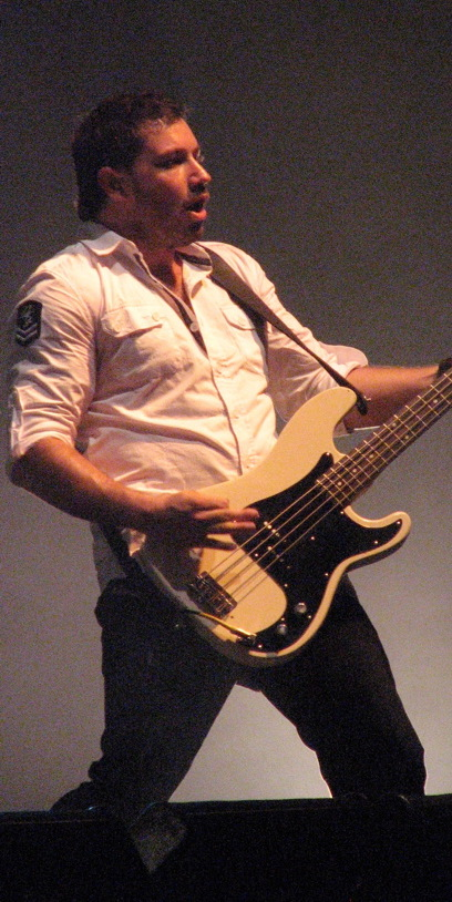 Bassist Chris Joannou of Silverchair performs at the Across the Great Divide Tour in Sydney in 2007.